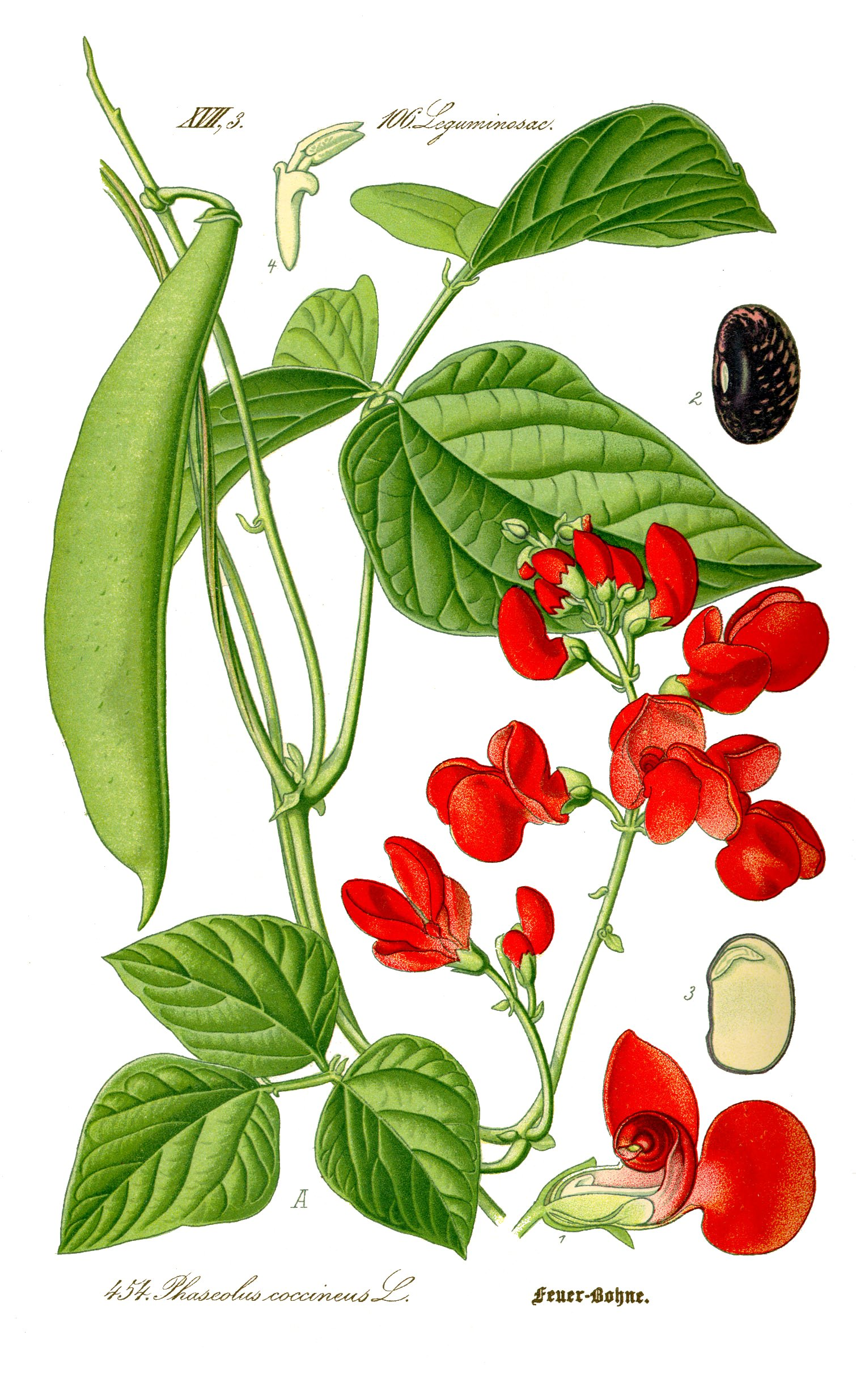 Name Phaseolus coccineus Family Fabaceae